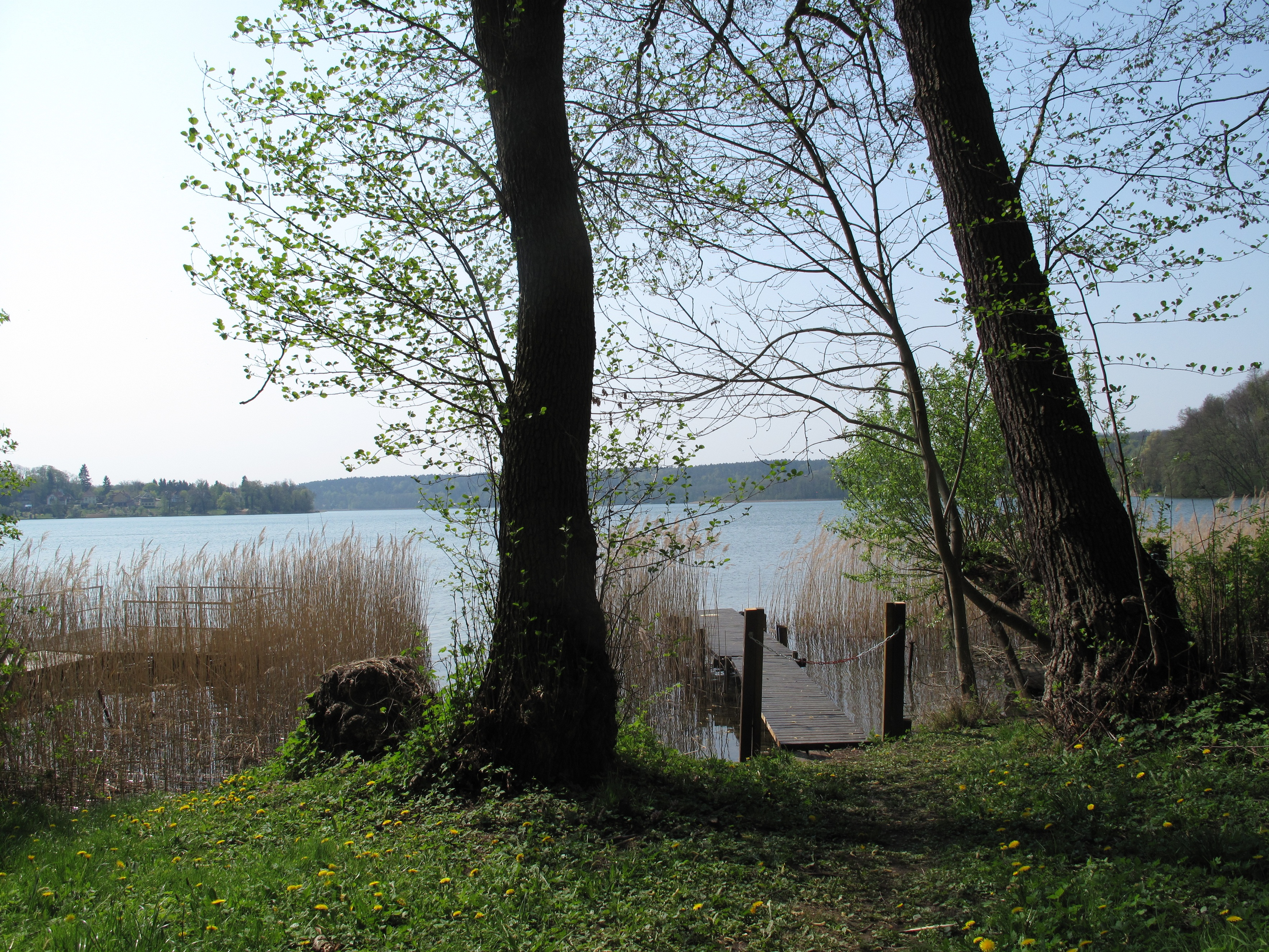 The Panoramaweg is a part of the approximately 7,5 kilometres long walking path around the Schermützelsee. The Schermützelsee is a lake in Buckow, District Märkisch-Oderland, Brandenburg, Germany. The lake covers 137 hectare and is the largest water in the hill country „Märkische Schweiz“ and in the Märkische Schweiz Nature Park.